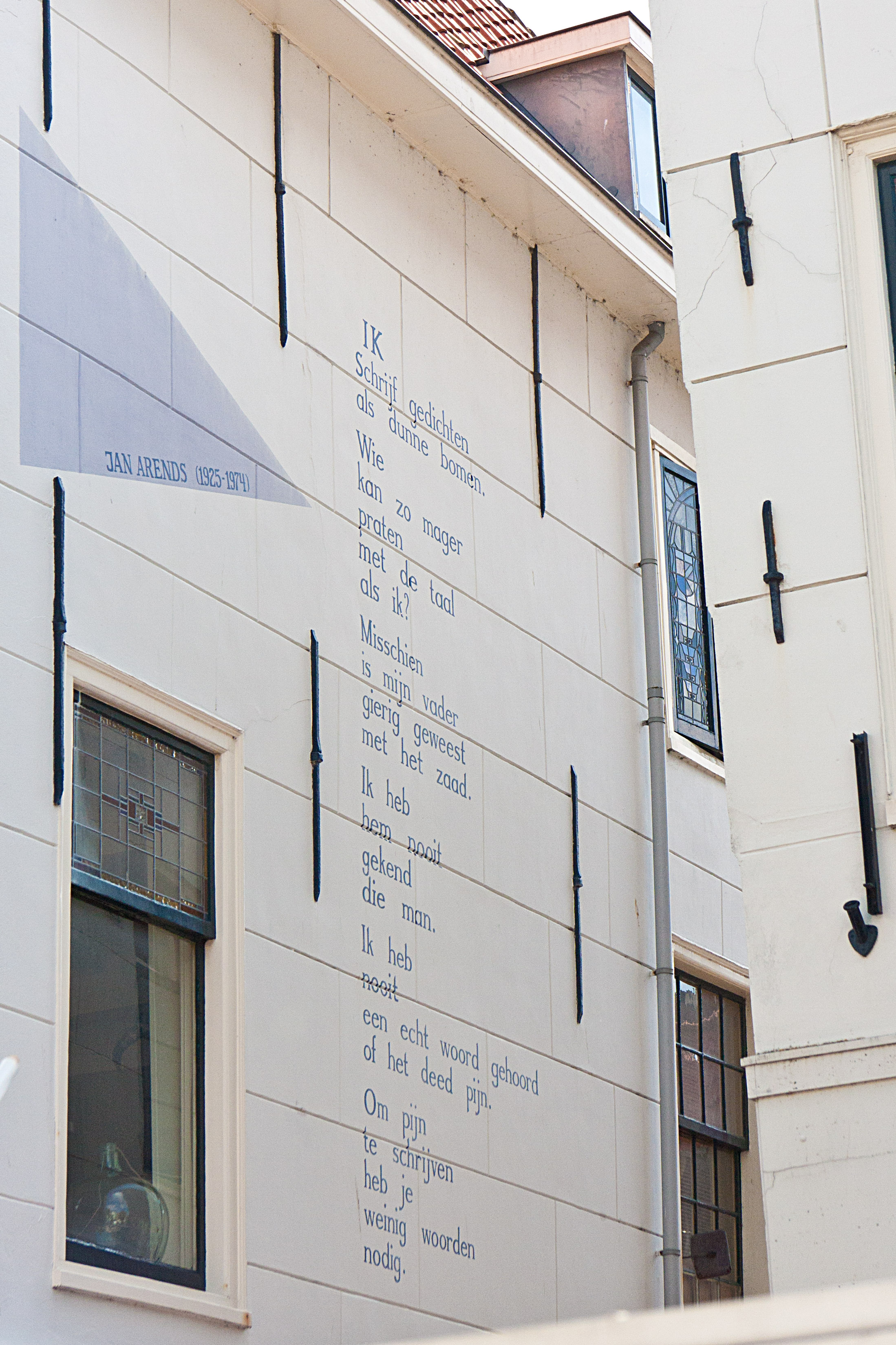 A wall poem in Leiden, the Netherlands, in Dutch, by Jan Arends